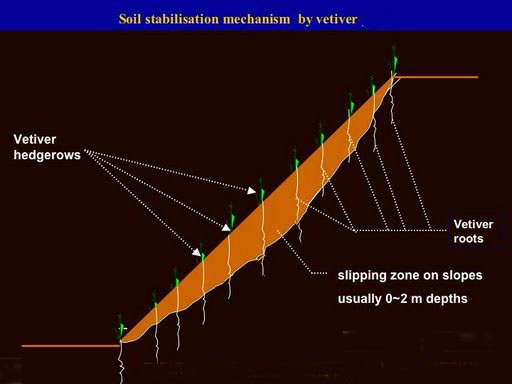 Conceptual drawing of the Vetiver System technology Removed from the following pages: Vetiver System --OrphanBot (talk) 07:35, 27 May 2009 (UTC)